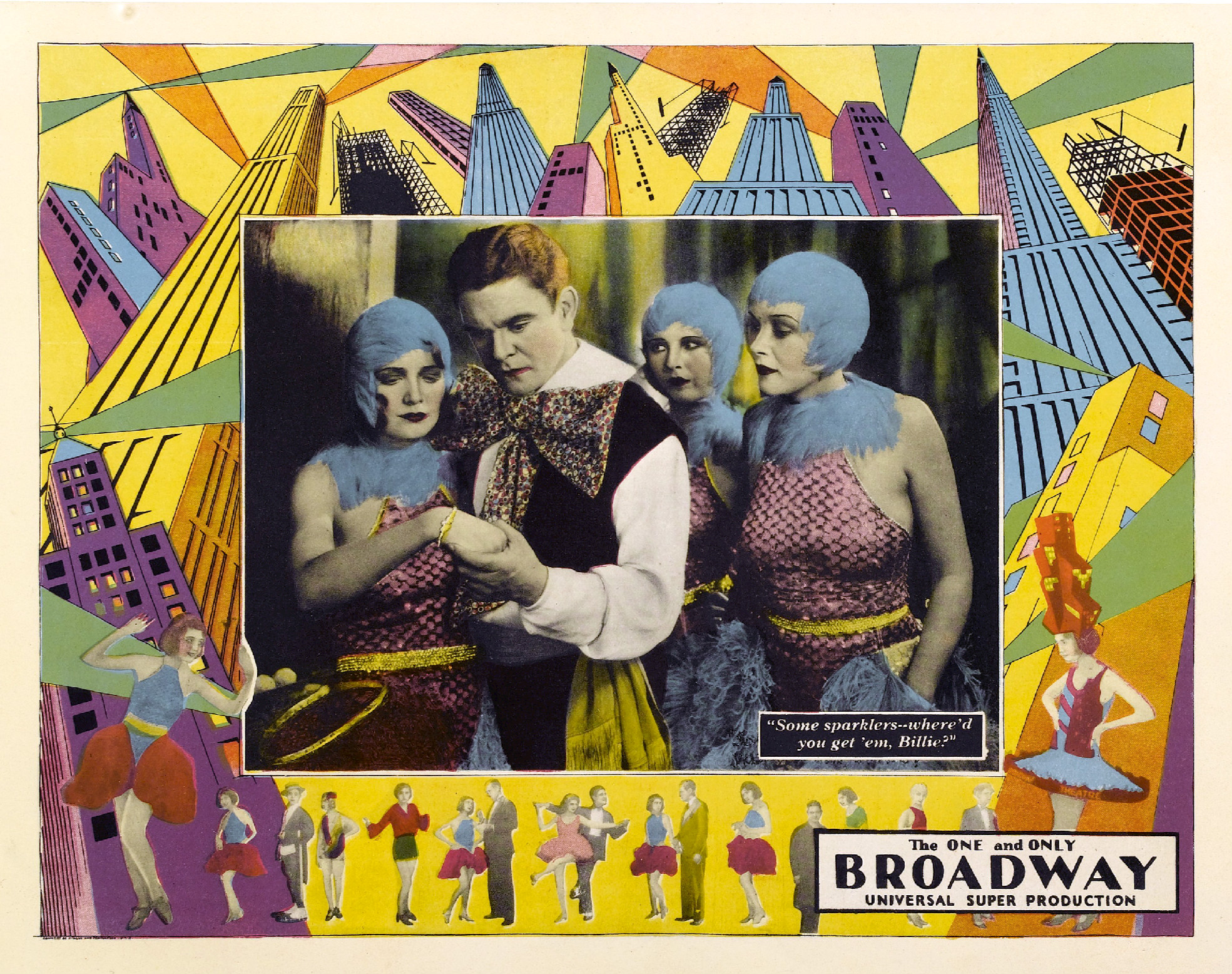 Lobby card for the 1929 film Broadway. There are no copyright marks. At bottom left is Country of origin and production USA.